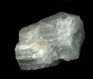 Beryl